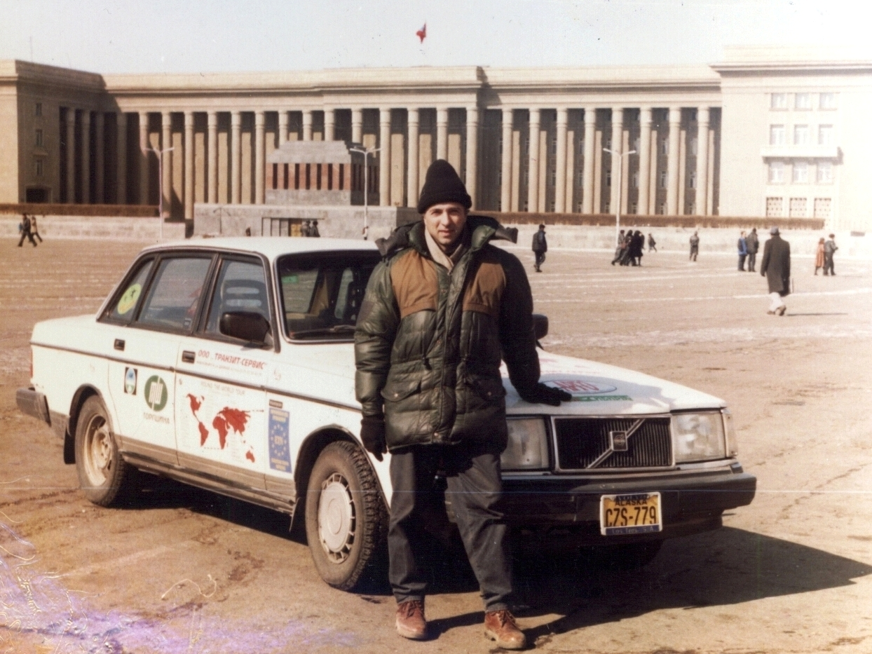 Vladimir Lysenko in Ulan Bator during his Around-the-World trip in a Car. This photo is for page "Vladimir Lysenko" in Wikipedia